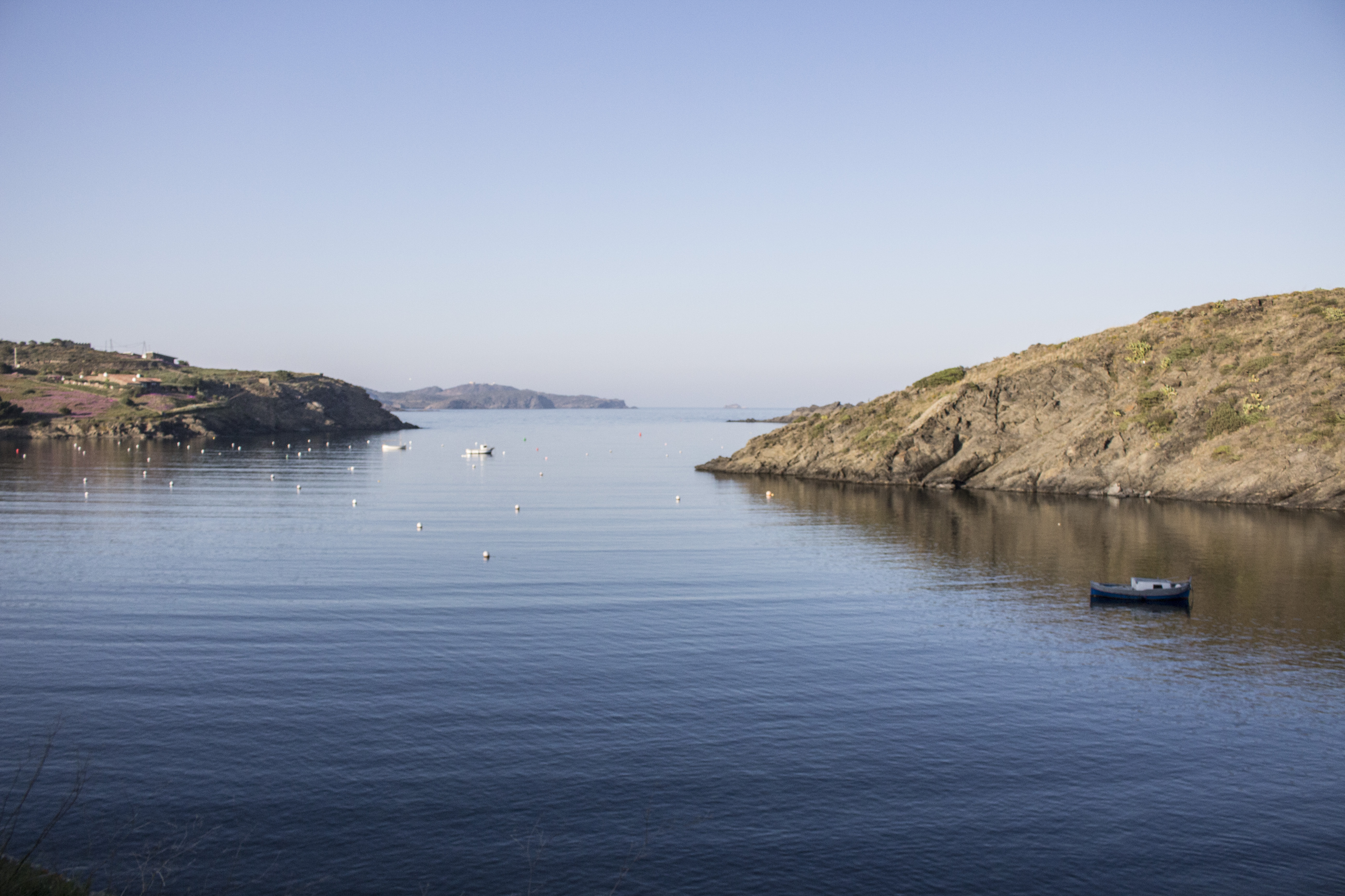 The bay of Port Lligat with the lighthouse of Cap de Creus in the background.